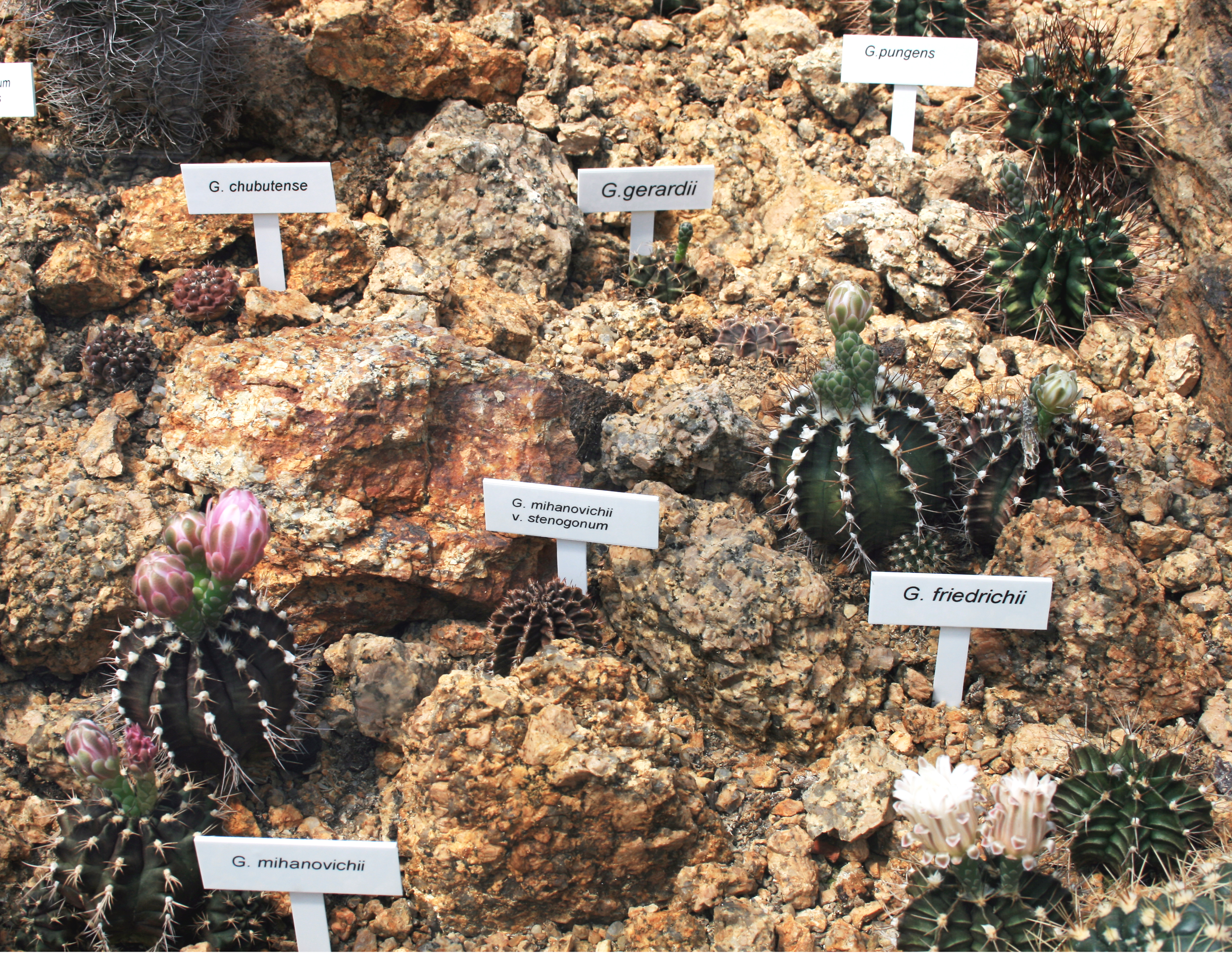 Several cactuses of genus Gymnocalycium: Gymnocalycium mihanovichii, Gymnocalycium friedrichii, Gymnocalycium chubutense (Syn. Gymnocalycium gibbosum), Gymnocalycium gerardii (Syn. Gymnocalycium gibbosum) and Gymnocalycium pungens in Botanical Garden Liberec, Czech Republic